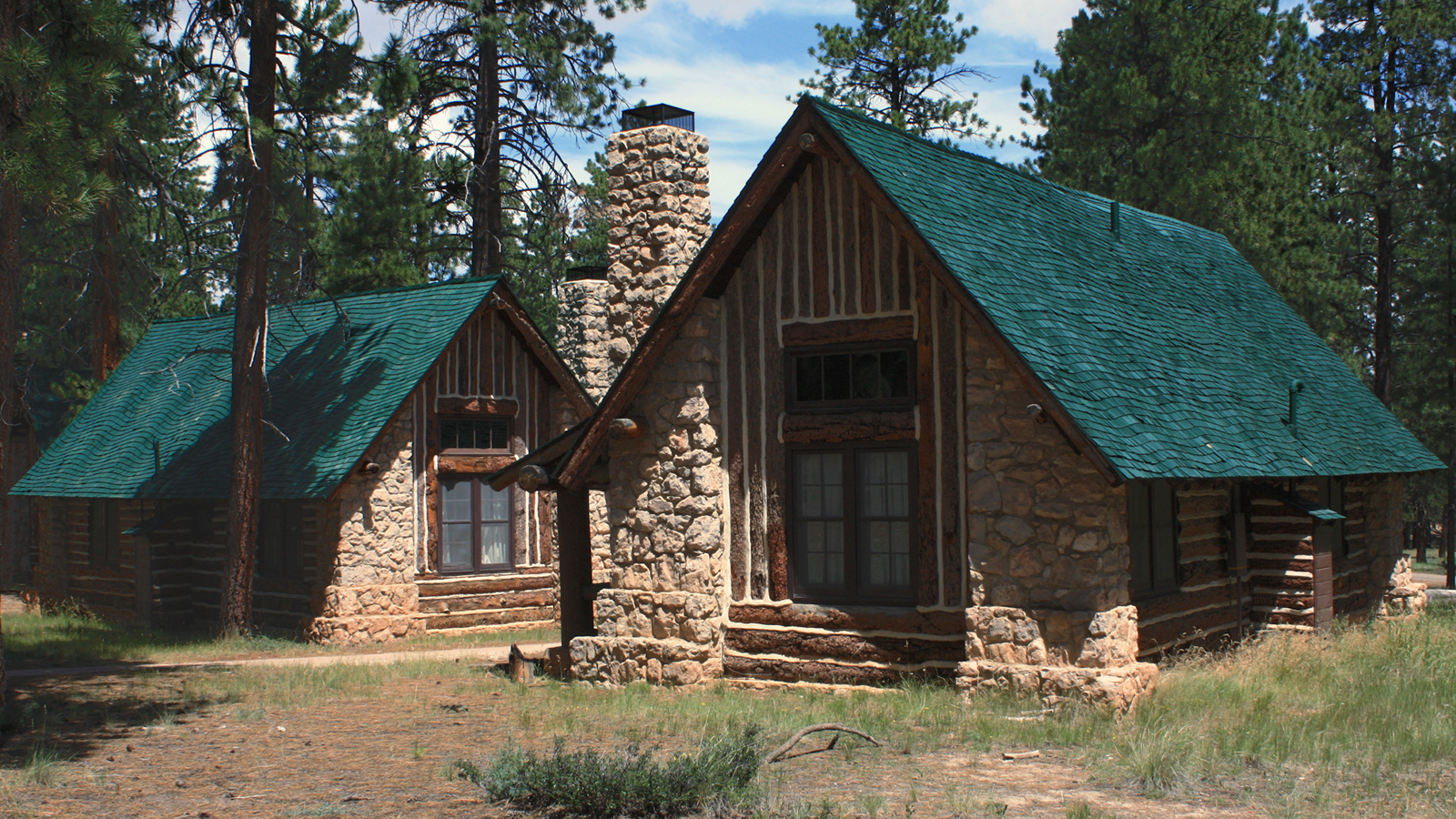 Bryce Canyon National Park, Utah, USA, NRHP deluxe cabins